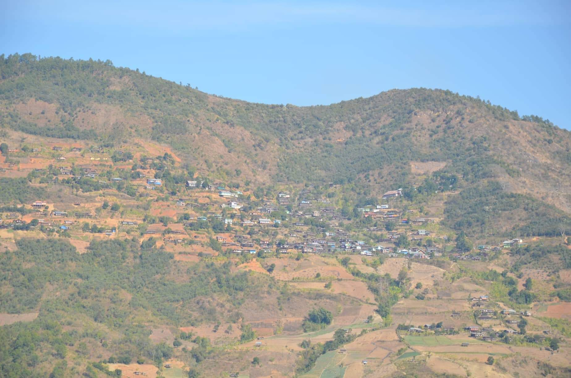 View of Vangteh against Limkhai.